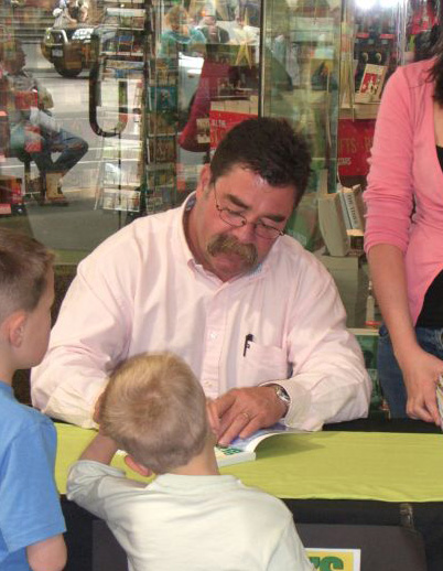 David Boon, usually referred to as "Boony", former Australian cricketer of the 1980s and 1990s. He was a stocky right-hand batsman who fielded at short leg.